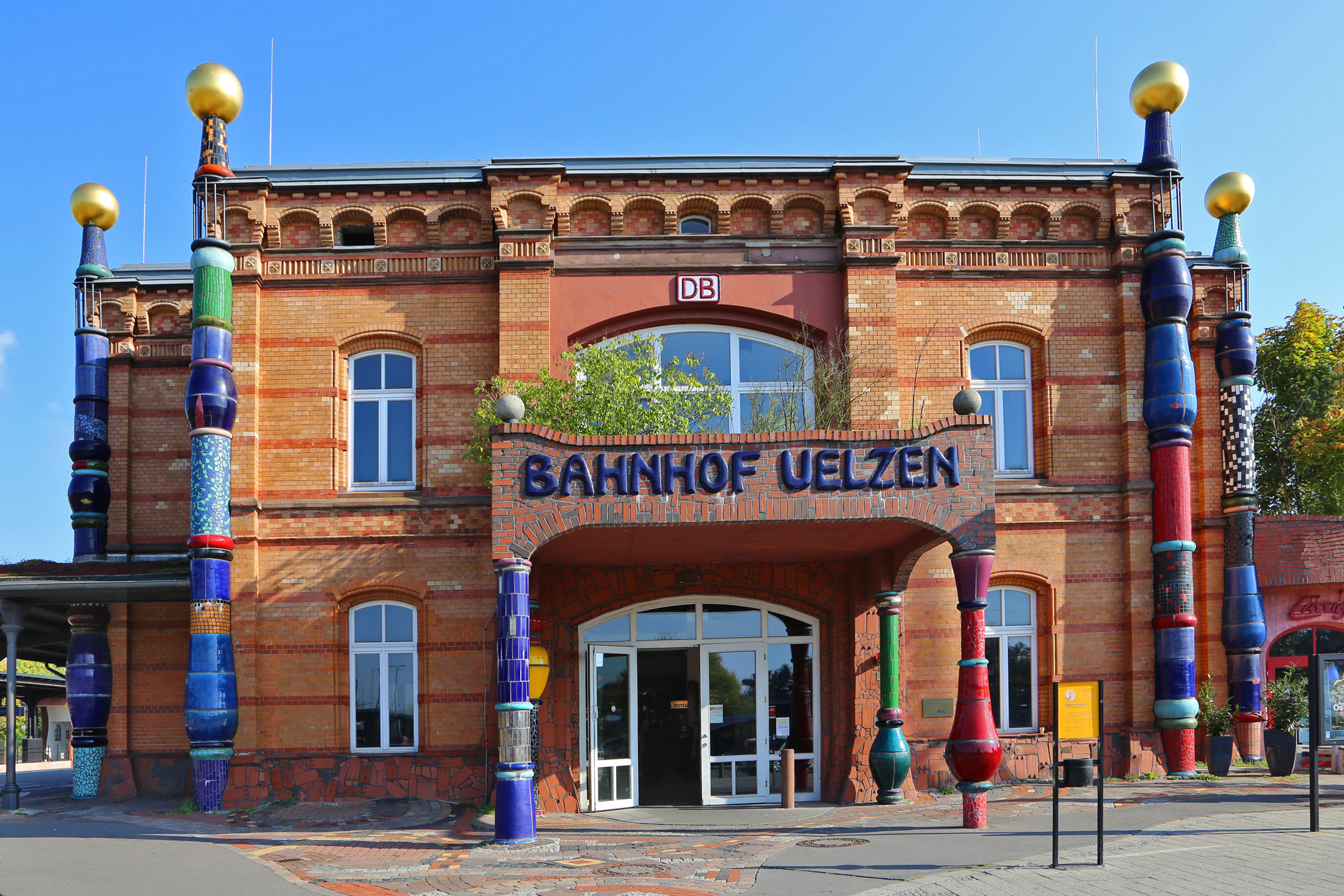 Hundertwasser station Uelzen. The reception building was designed by the artist Friedensreich Hundertwasser as environment and cultural station.